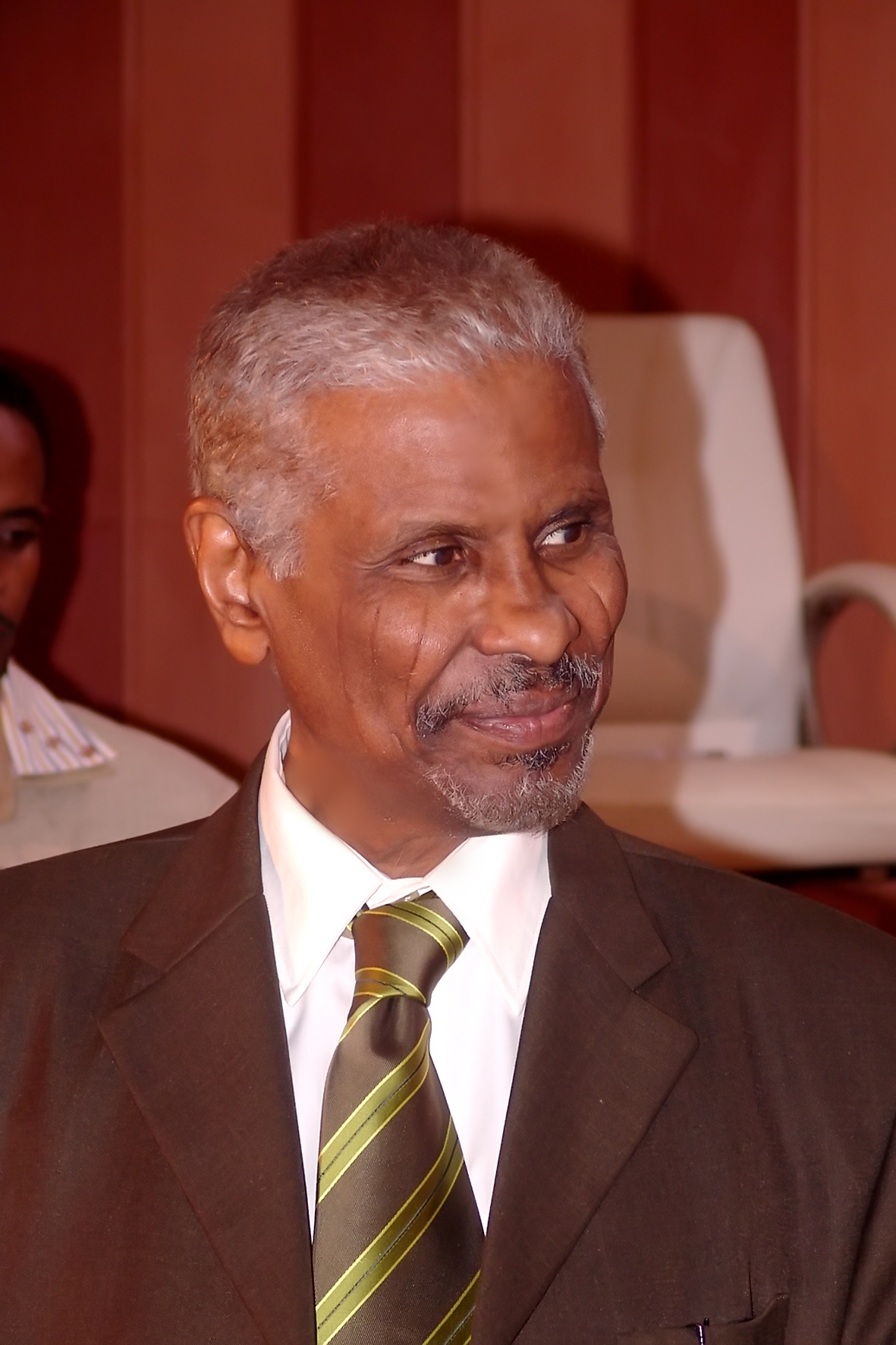 This photo for the Sudanese professor Hasan Abu-Aisha Hamid